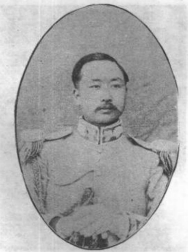 Liu Cunhou(1885 - 1960)